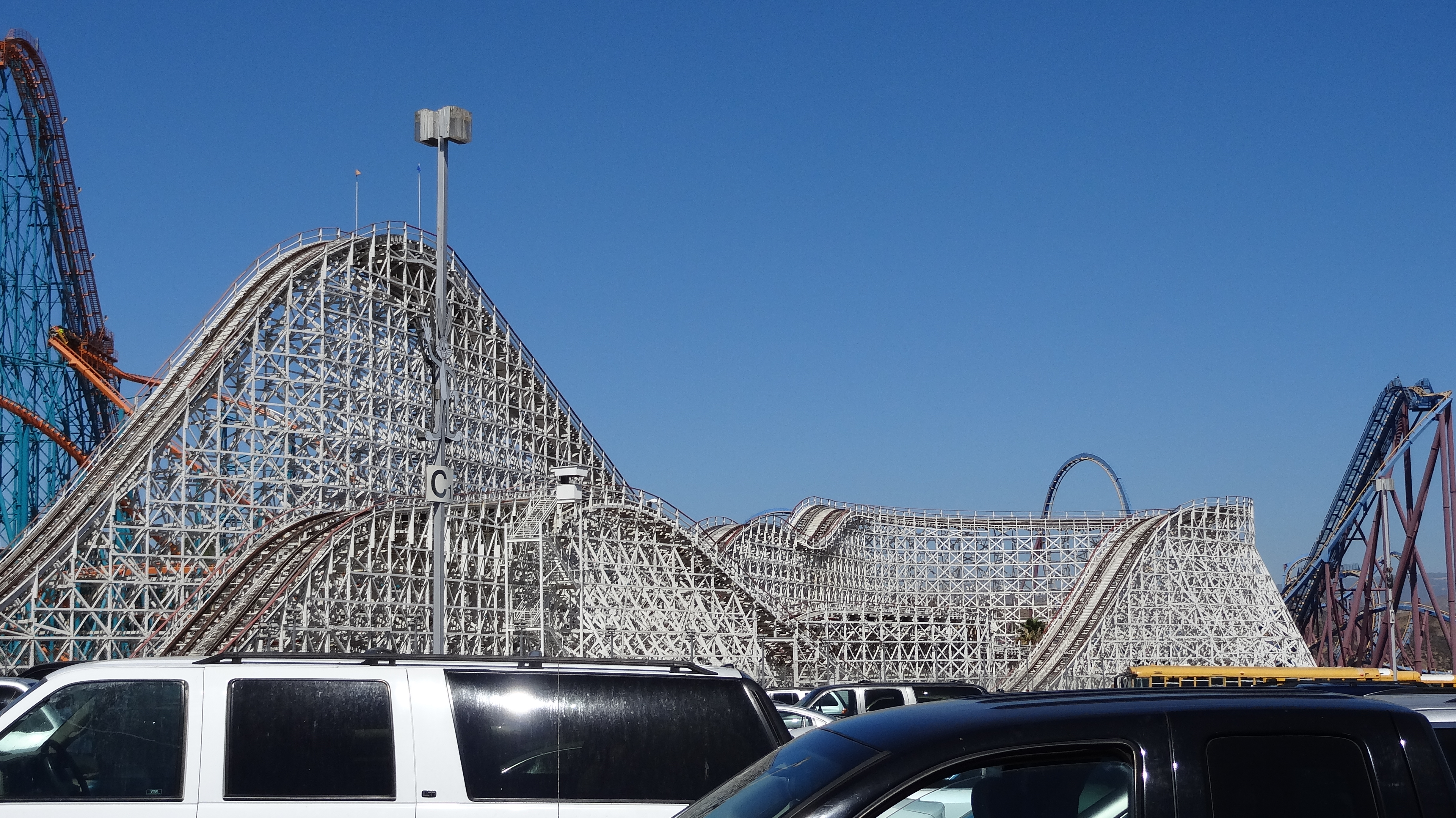 Colossus is a wooden roller coaster which opened in 1978 and is labeled by Six Flags Magic Mountain as a family friendly ride.